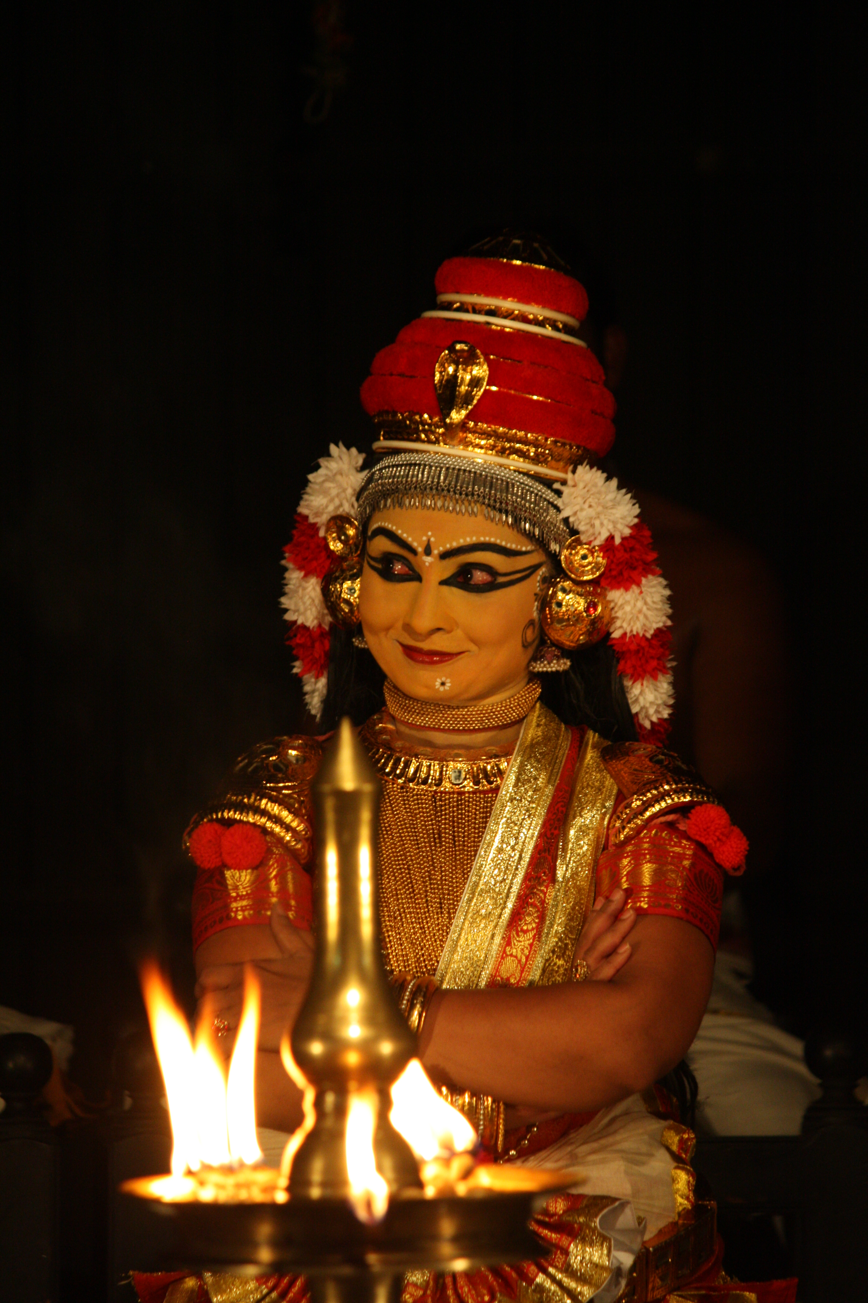 Koodiyattam artist Dr Indu G performing Nangyar Koothu at Nepathya's Koothambalam, Moozhikkulam